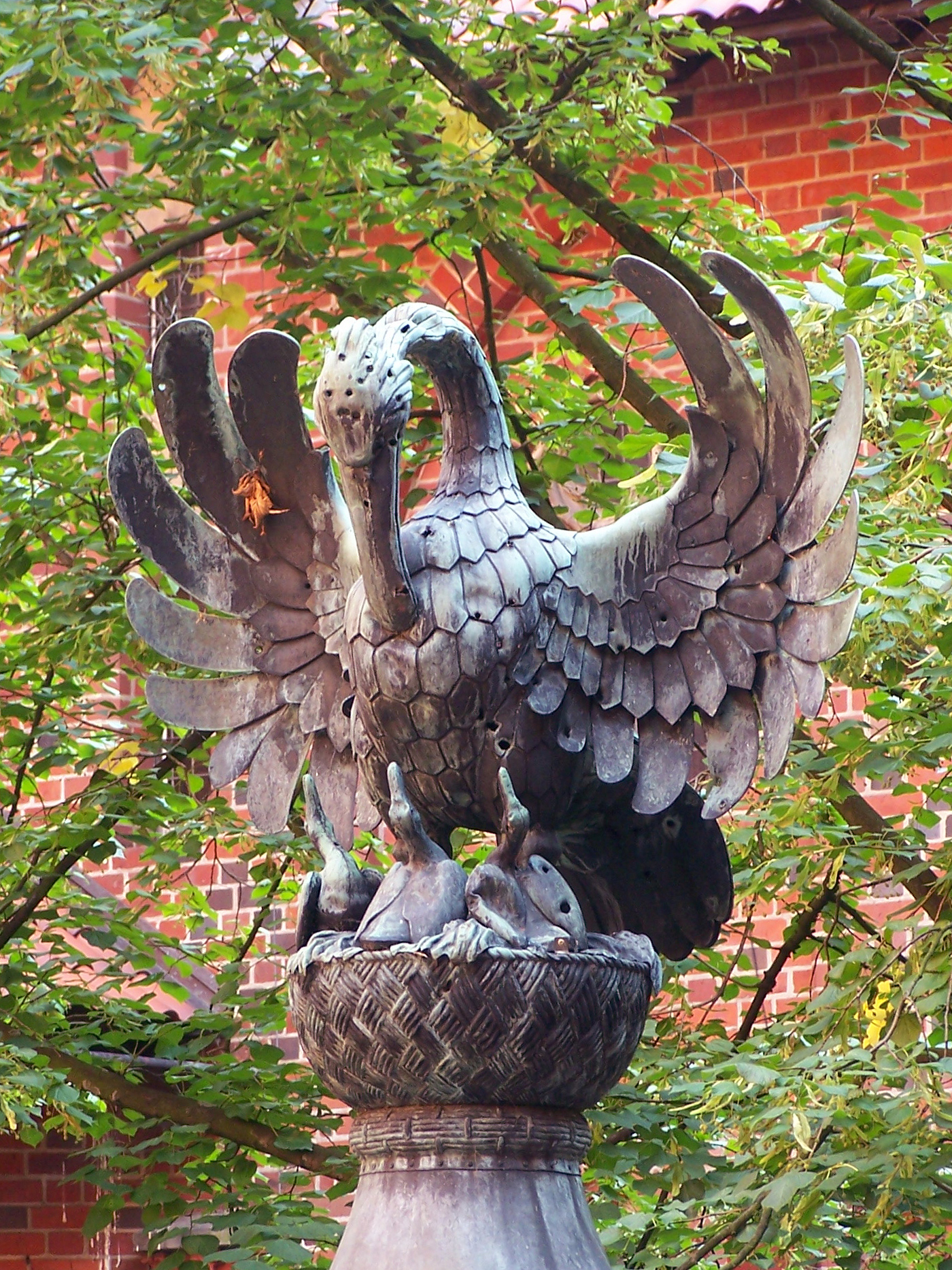 Pelican statue on the roof of well in castle in Malbork (Poland).